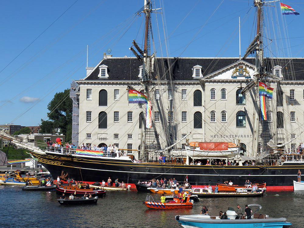 The clipper "Stad Amsterdam" alongside the Maritime Museum during the Canal Parade of the Amsterdam Gay Pride of 2016.